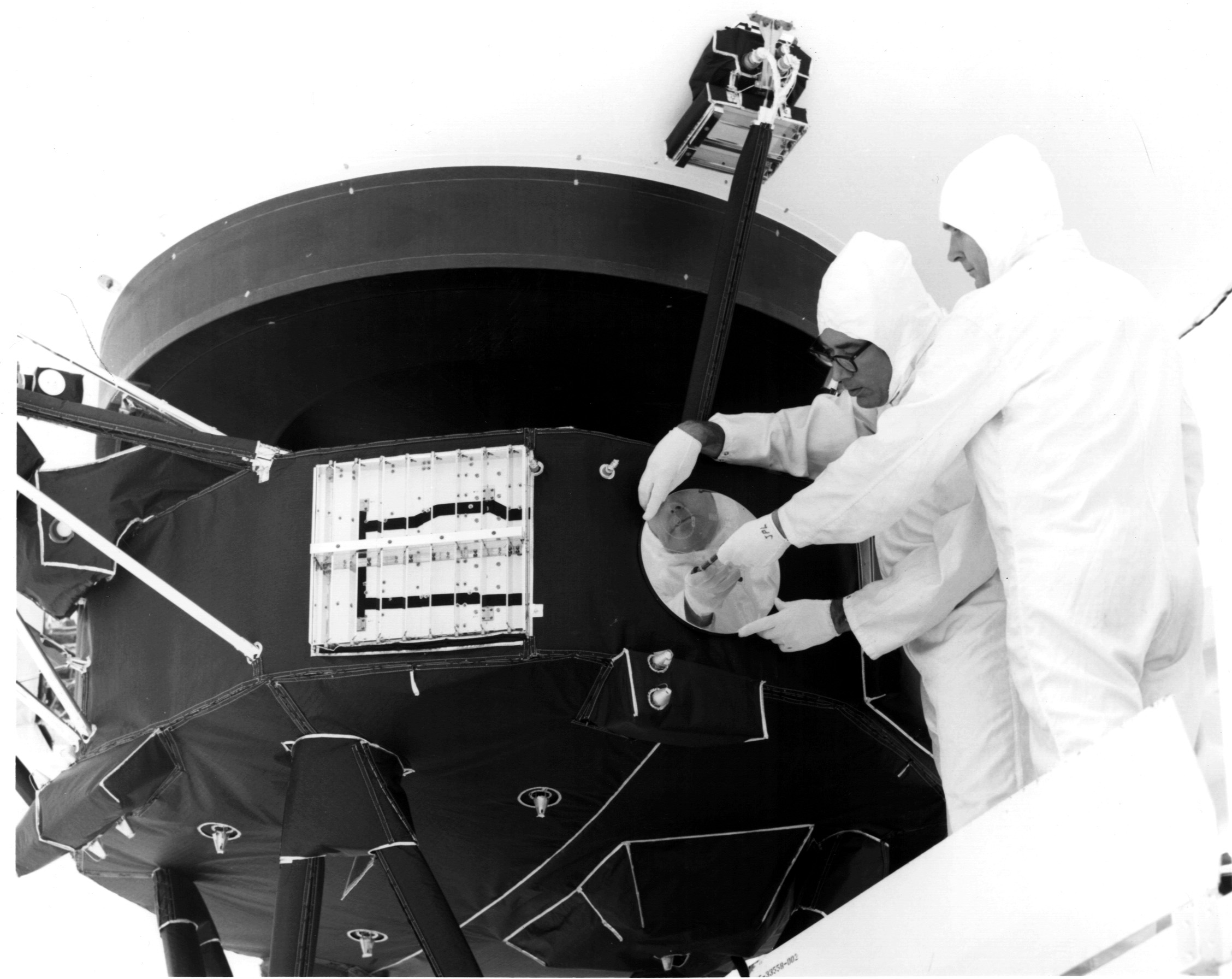 Gold-Plated Record is attached to Voager 1. The title of the record is Sound of Earth.